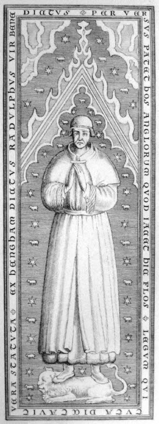 A portrait of English judge Sir Ralph de Hengham (1235 – 18 May 1311).